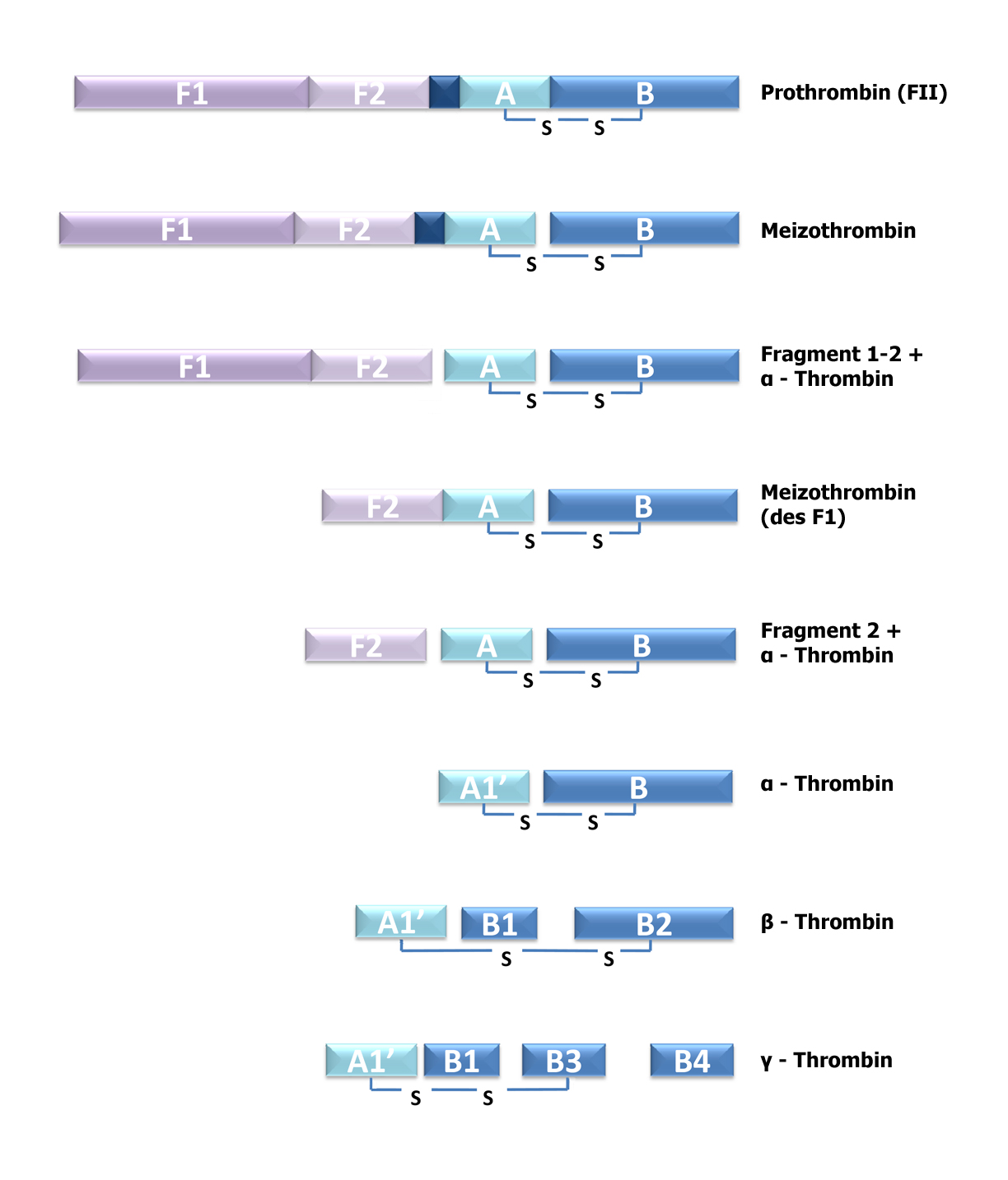 Multiple Active Forms Derived From Prothrombin